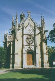 St Michael's Abbey church in Farnborough